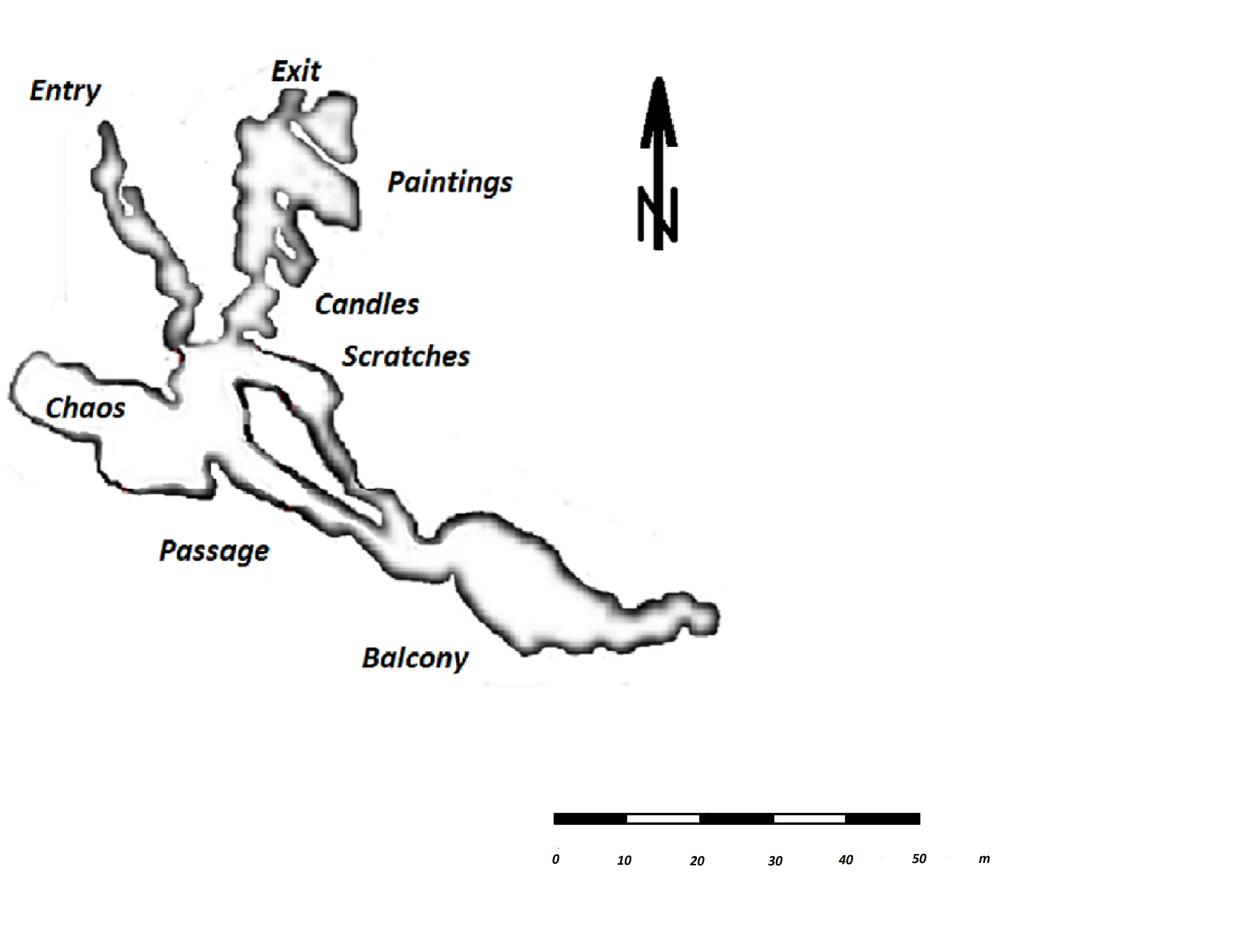 Outline of the Villars Cave's show section. The individual rooms are indicated. Completely redrawn from an illustration of the official website.